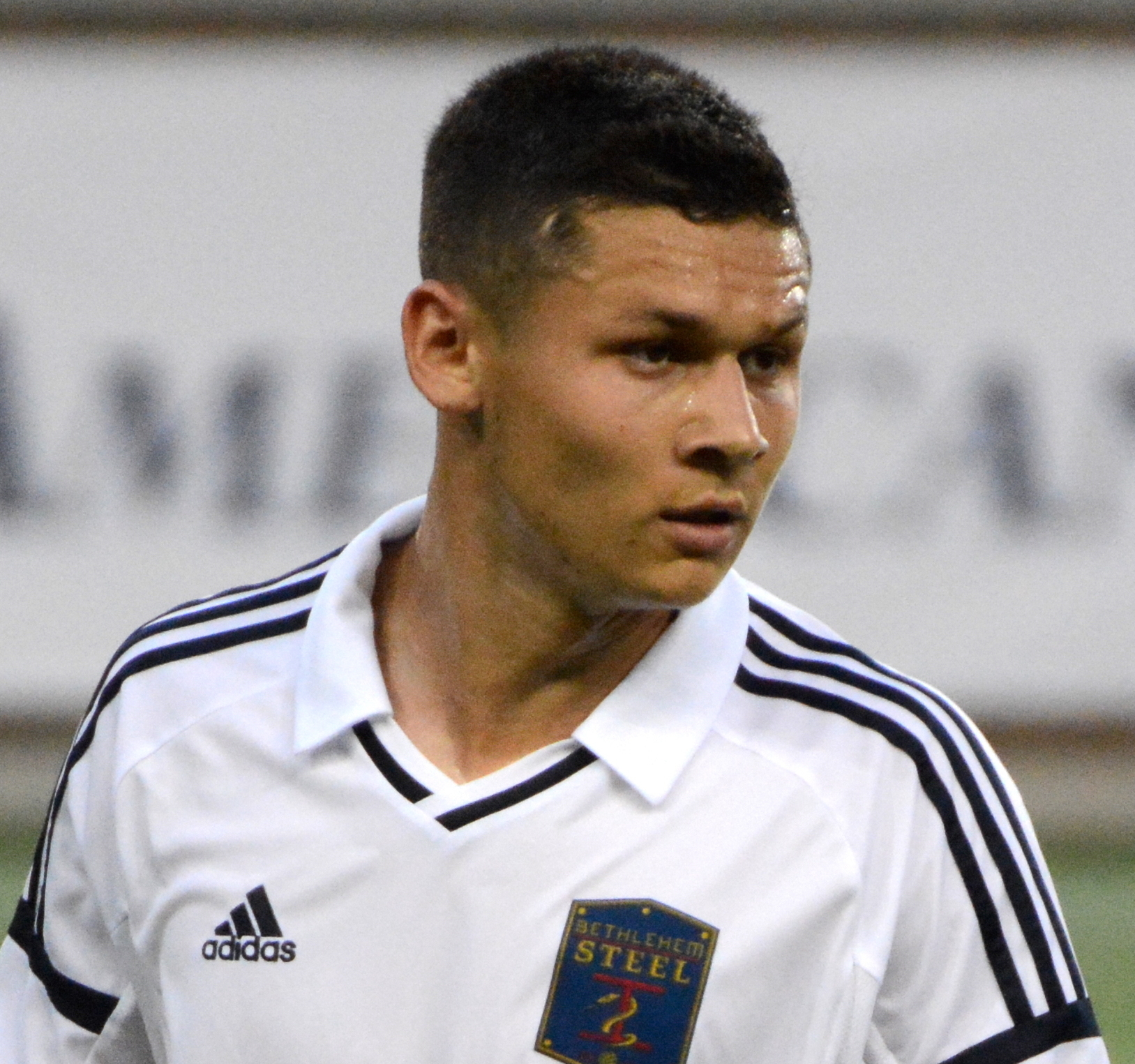 Matt Mahoney Taken during a match between FC Cincinnati and Bethlehem Steel FC at Nippert Stadium in Cincinnati, USA on May 20, 2017.